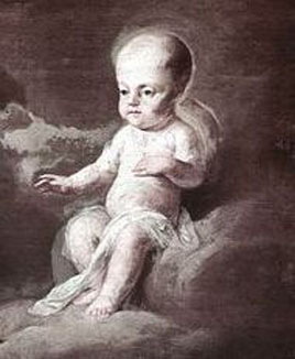 Detail of Archduchess Maria Carolina of Austria (1748)